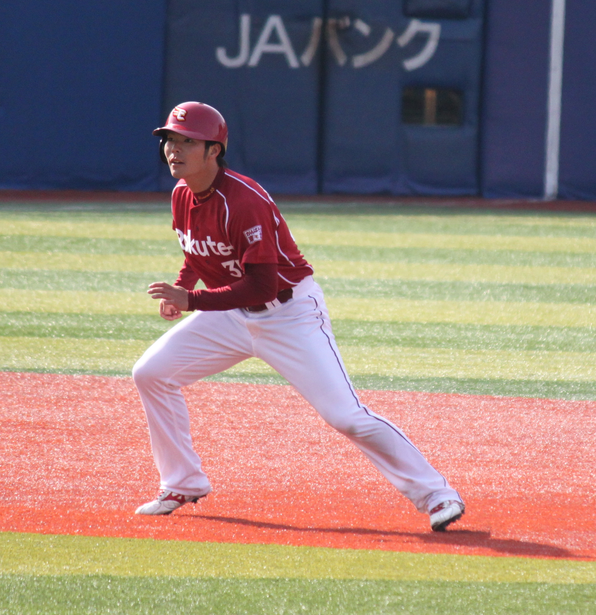 Hiroaki Shimauchi, outfielder of the Tohoku Rakuten Golden Eagles, at Yokohama Stadium